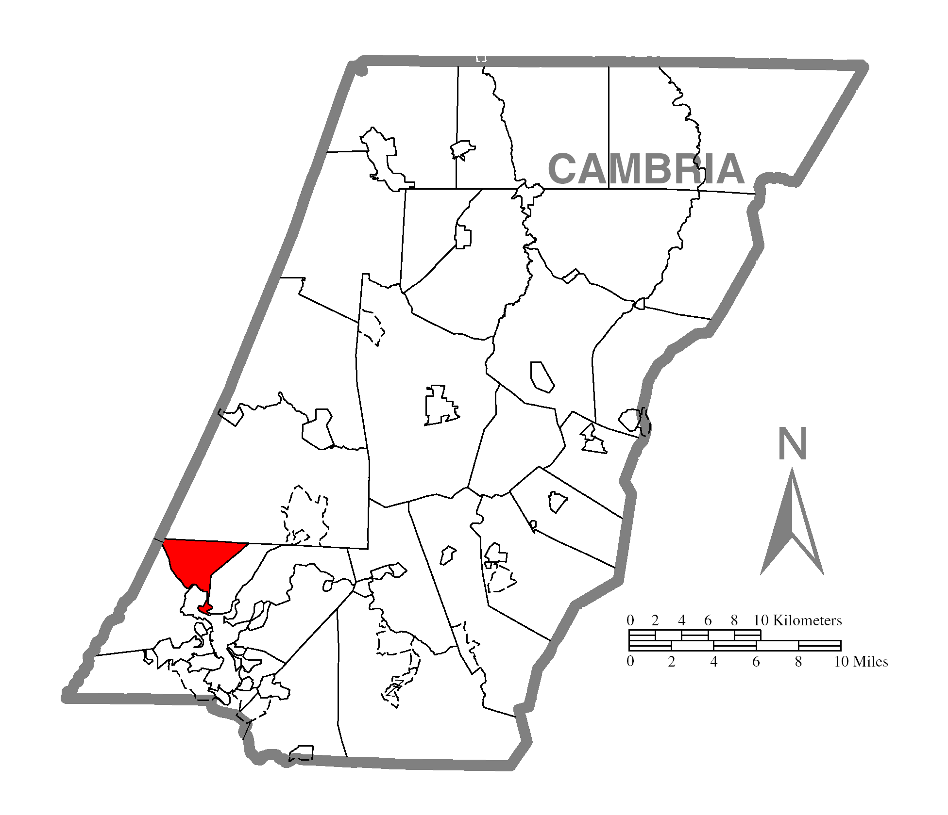 A map of Cambria County showing West Taylor Township, Pennsylvania (alternate) highlighted on the map.